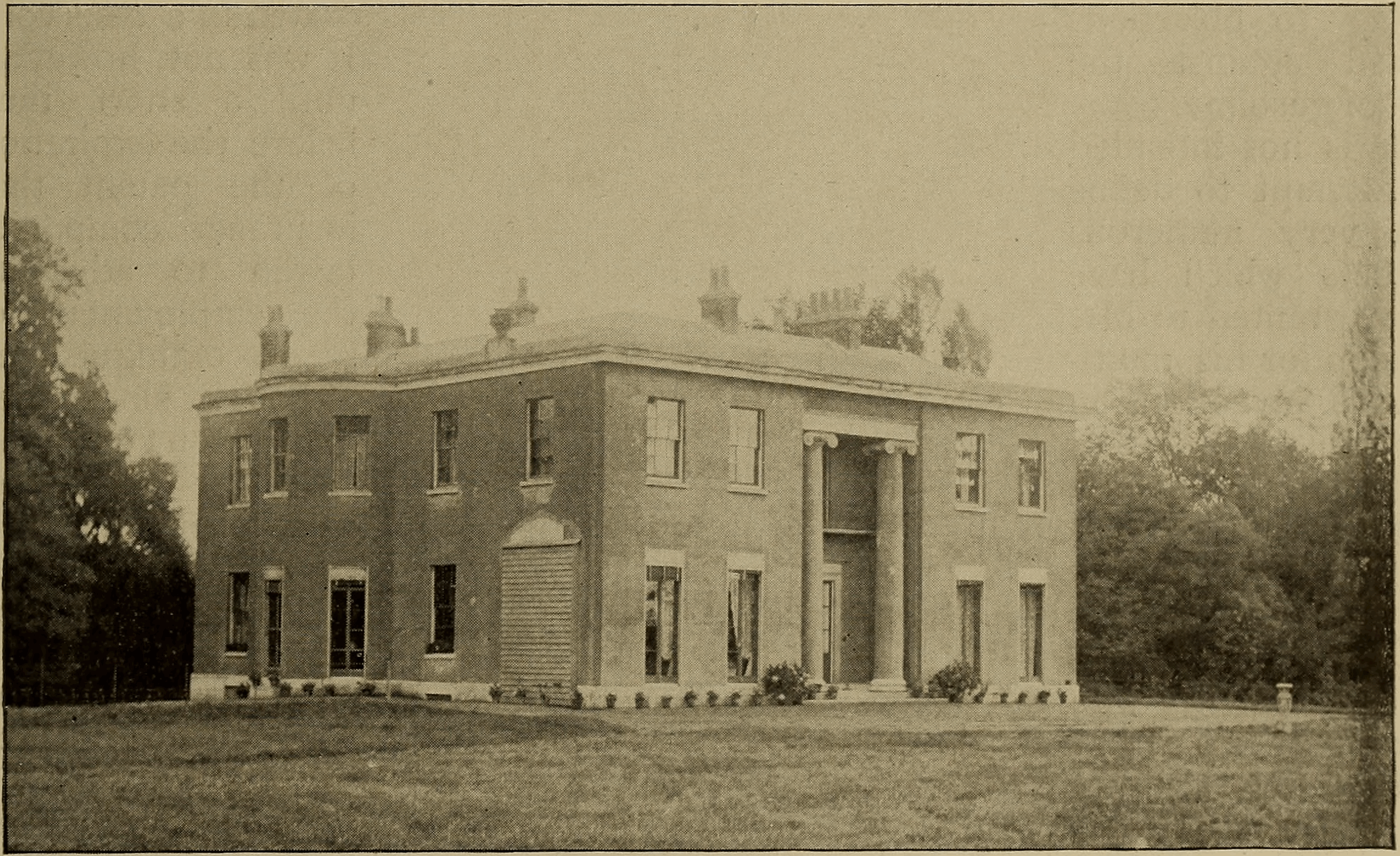 Cassier's Magazine of April 1895 had an article on page 435-456, written by J. Bucknall Smith and titled Some Features of the Inventive Career of Hiram S. Maxim. It was accompanied by a number of illustrations, including this photo of a Maxim's home at Bexley, on page 437.